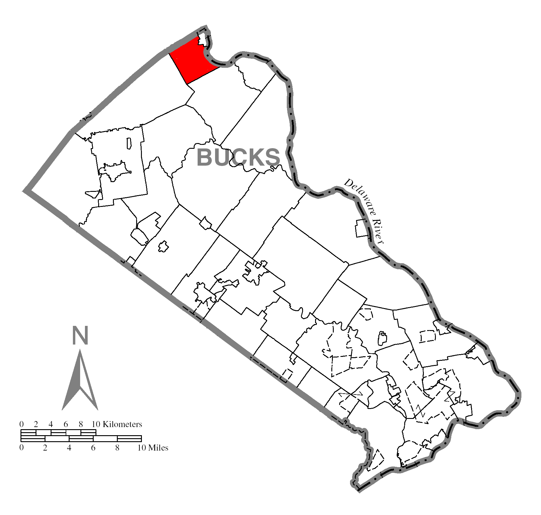 A map of Bucks County showing Durham Township, Pennsylvania (alternate) highlighted on the map.